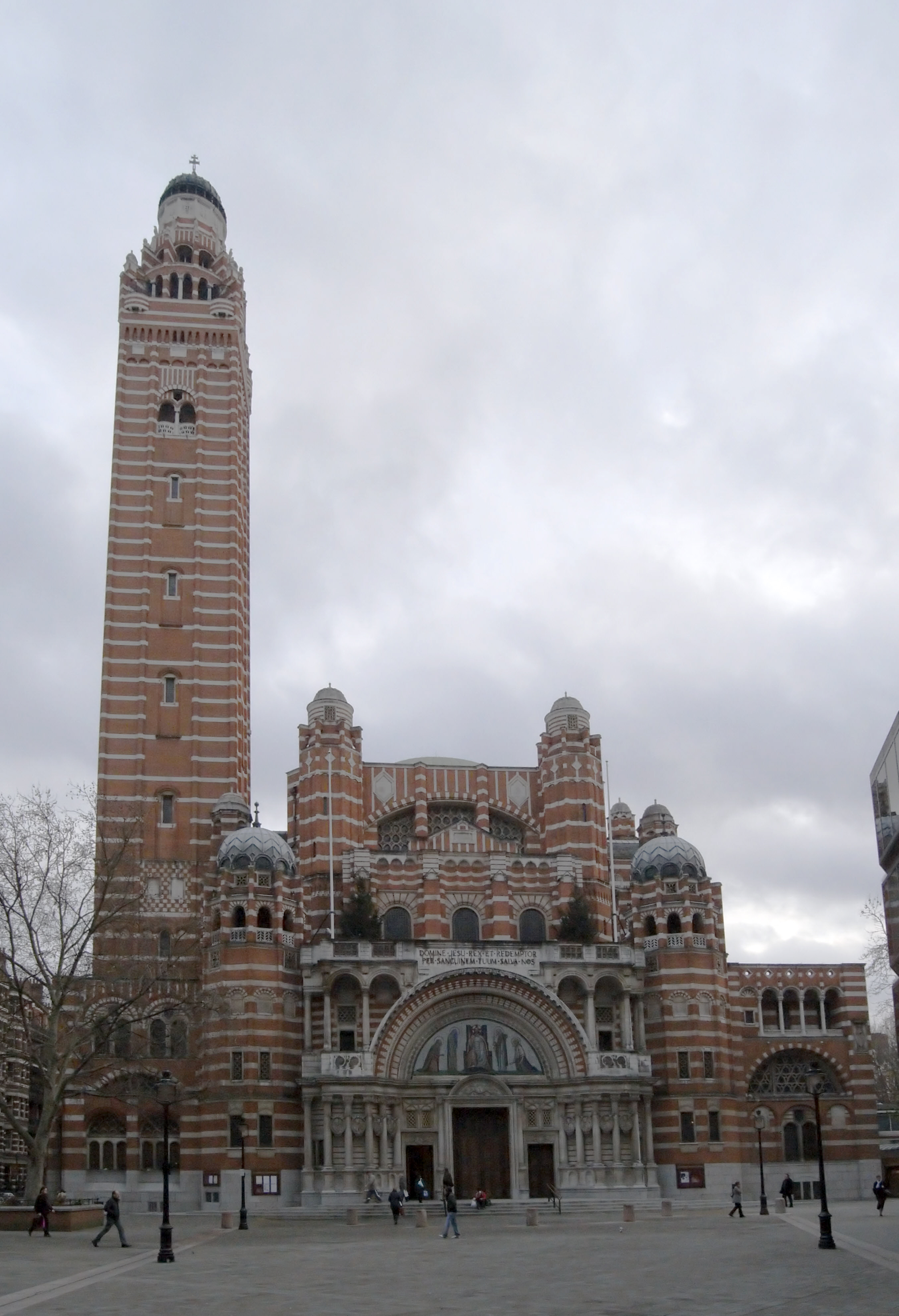 Exterior of Westminster Cathedral, London